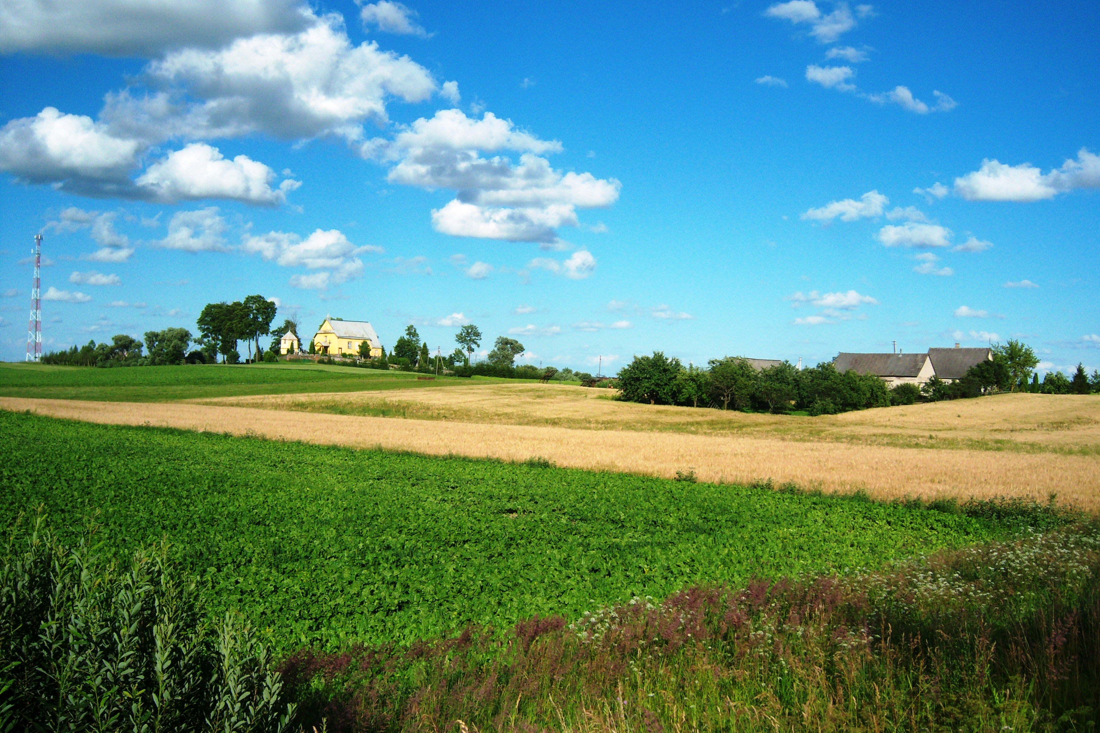 Lesčiai village , view from old Žemaičių plentas highway, Raseiniai district, Lithuania